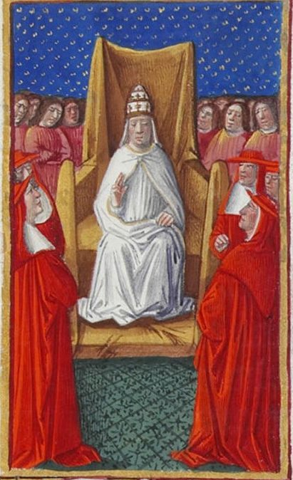 Miniature showing the an unknown pope and cardinals around him. Detail of Les Très Riches Heures du duc de Berry, Folio 197r